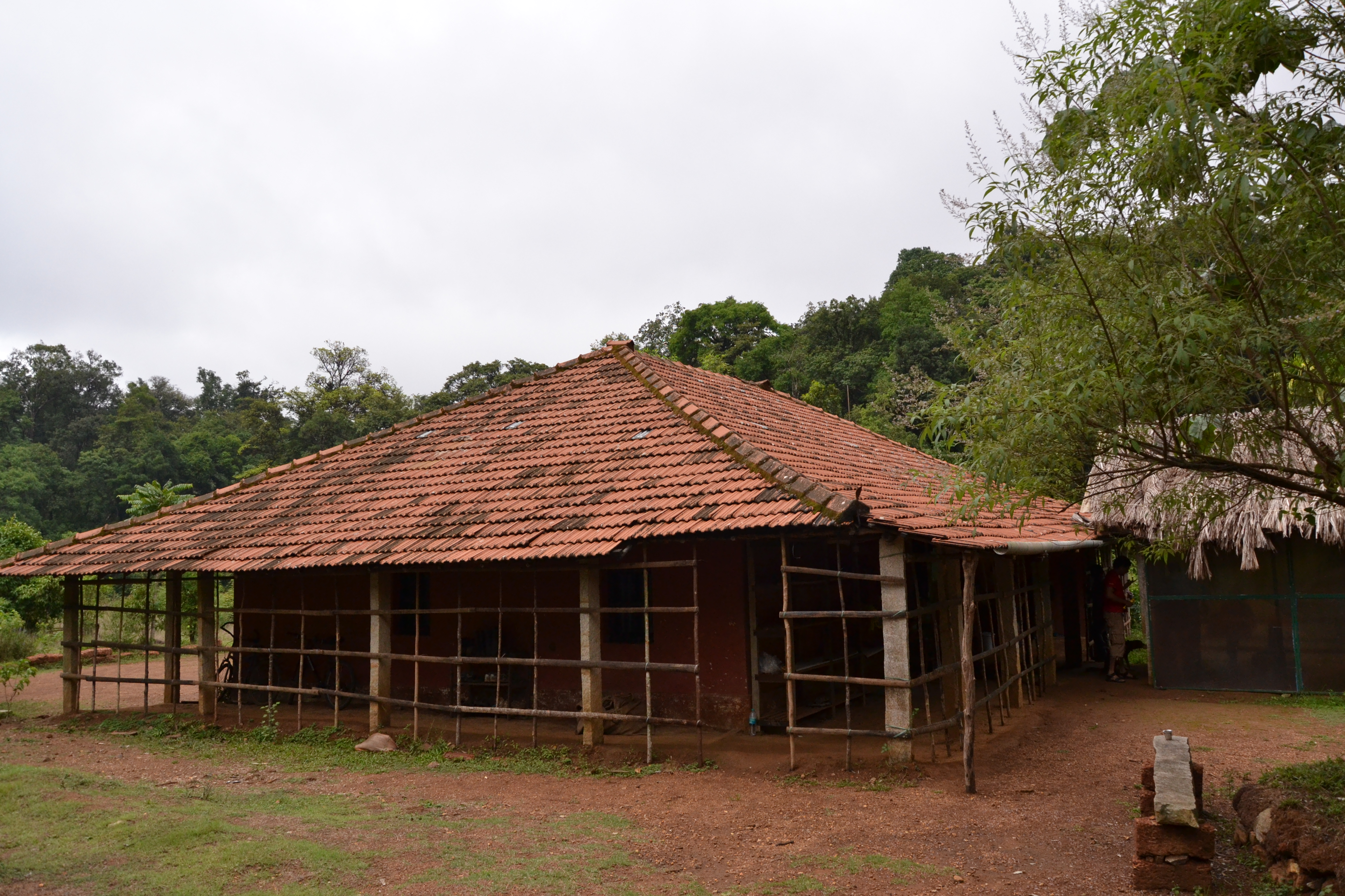 the main work station at Agumbe Rain Forest Research Station,Agumbe,Karnataka,India